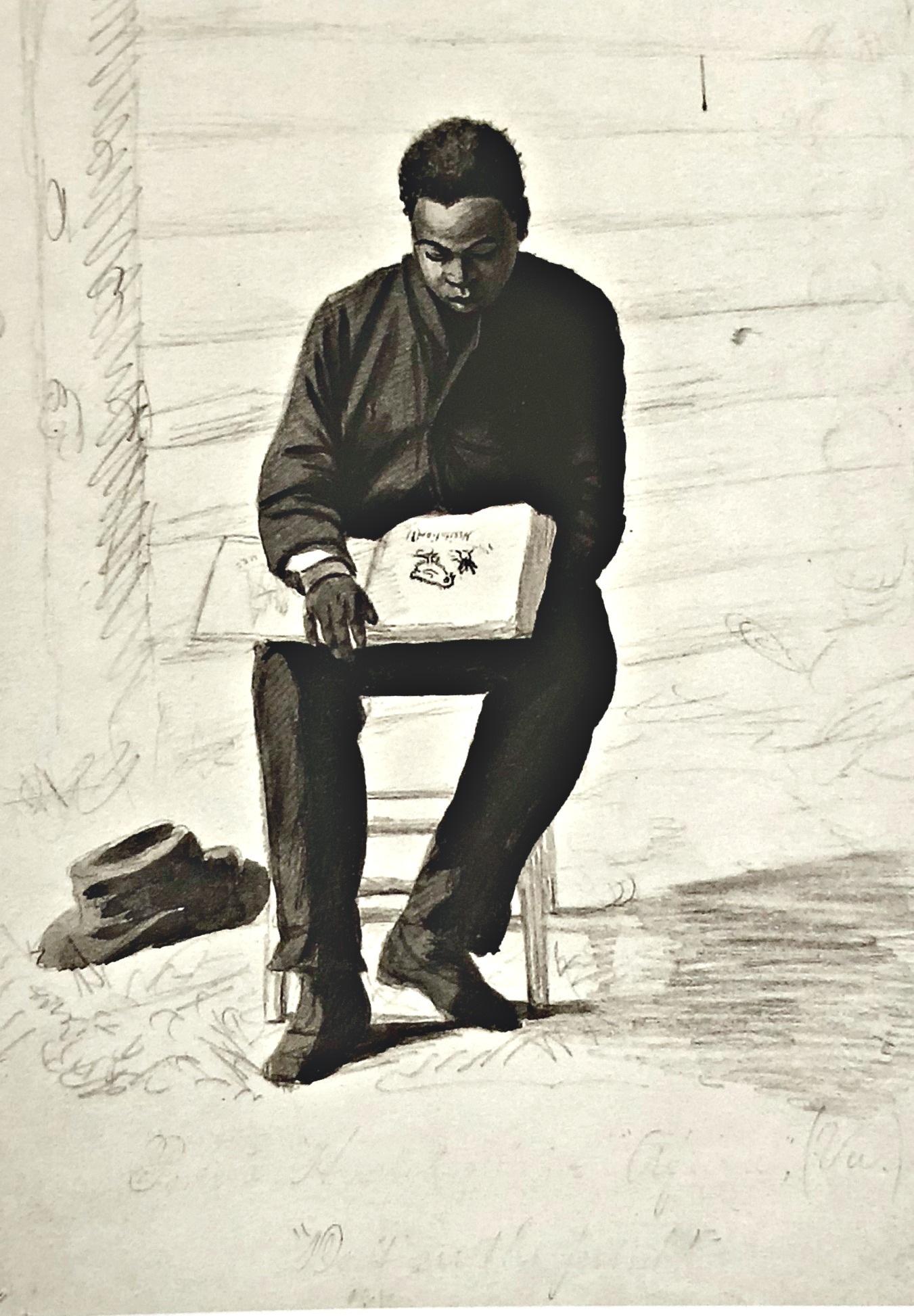 Boy and Book, watercolor on paper, collection of Charlynn and Warren Goins